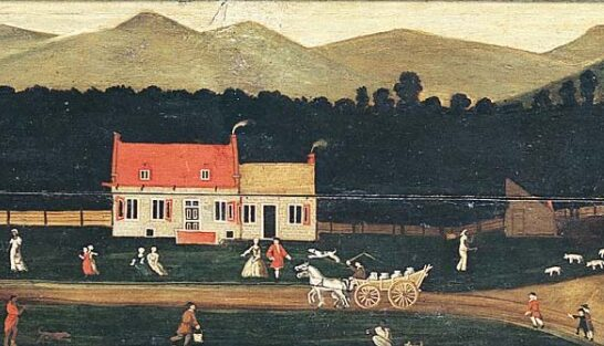 Middle panel of 1733 painting by John Heaton of Van Bergen farm near Albany NY Other information see